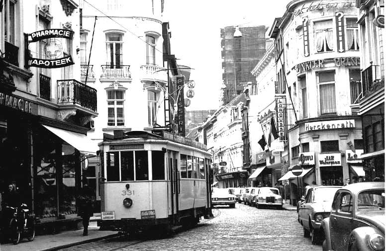 Tram 4 in de veldstraat jaren 60